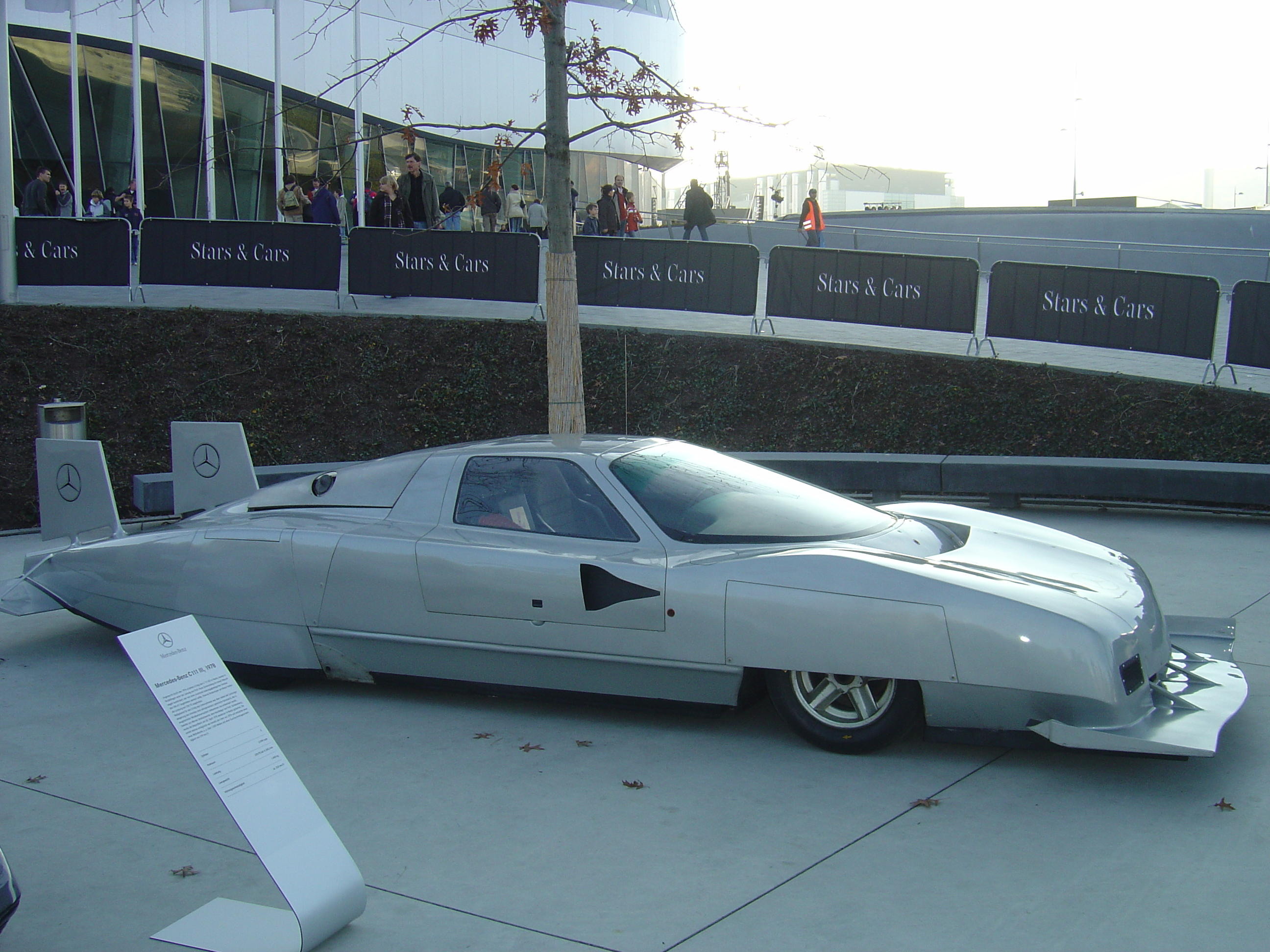 Mercedes-Benz C111-IV: the photo was taken during 2007's "Stars & Cars" event in Stuttgart-Untertürkheim